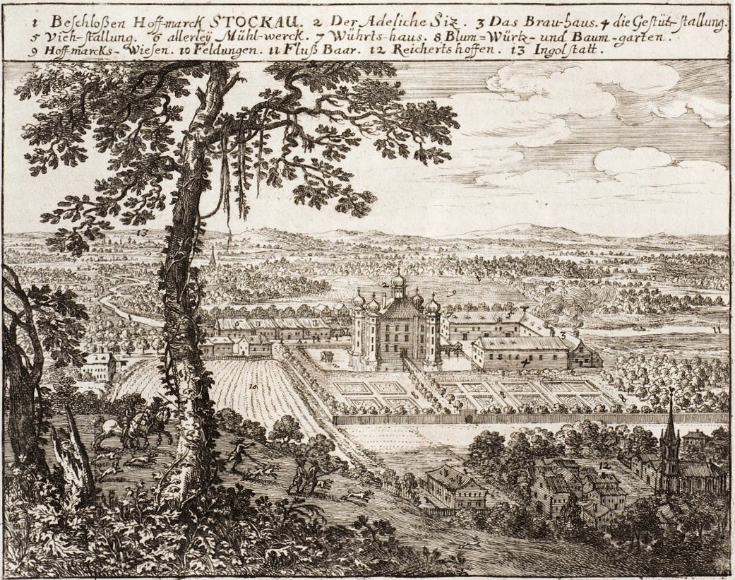 Mansion and estate of Stockau at Paar river in former duchy of Palatinate-Neuburg, nowadays a part of Bavaria. Copperplate engraving.